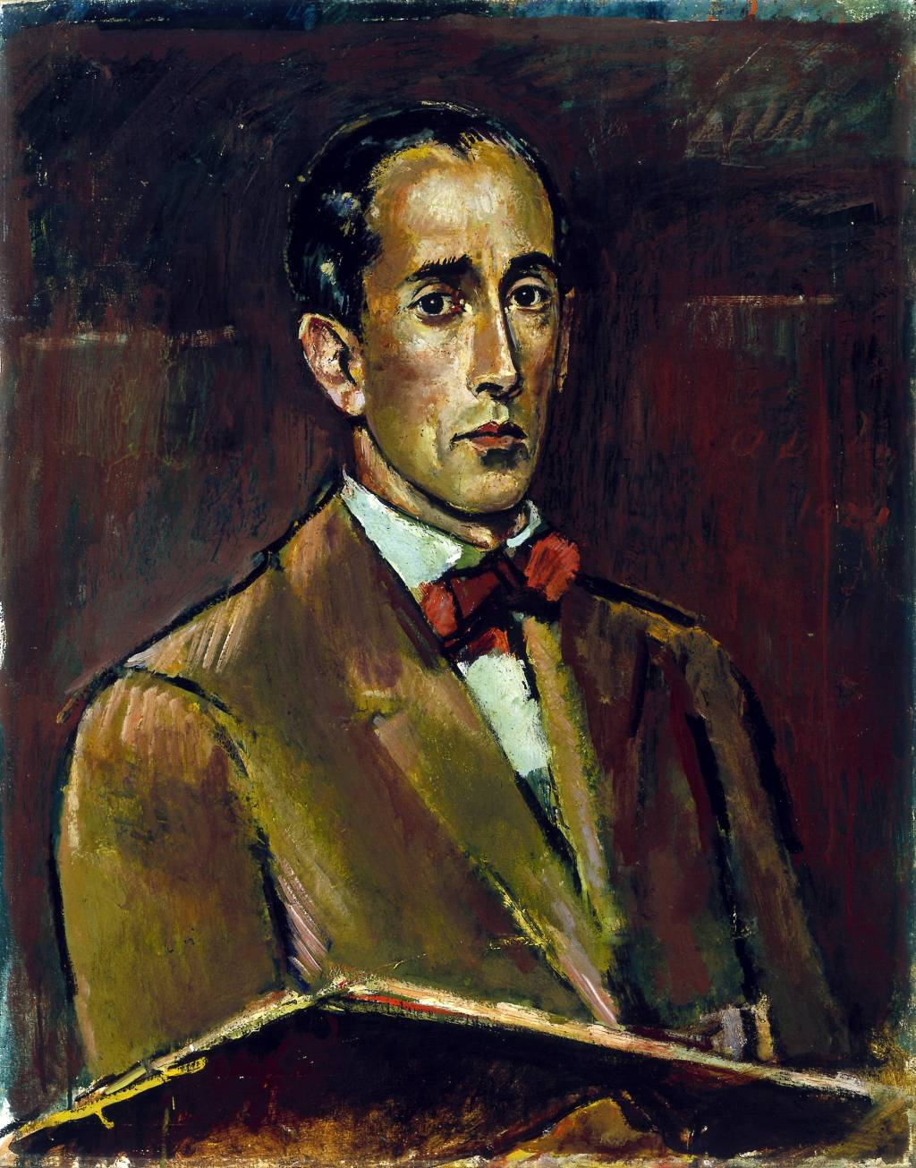 Selbstbildnis_mit_Palette